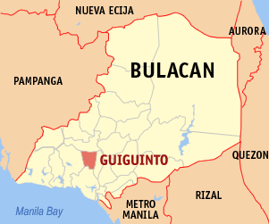 Map of Bulacan showing the location of Guiginto